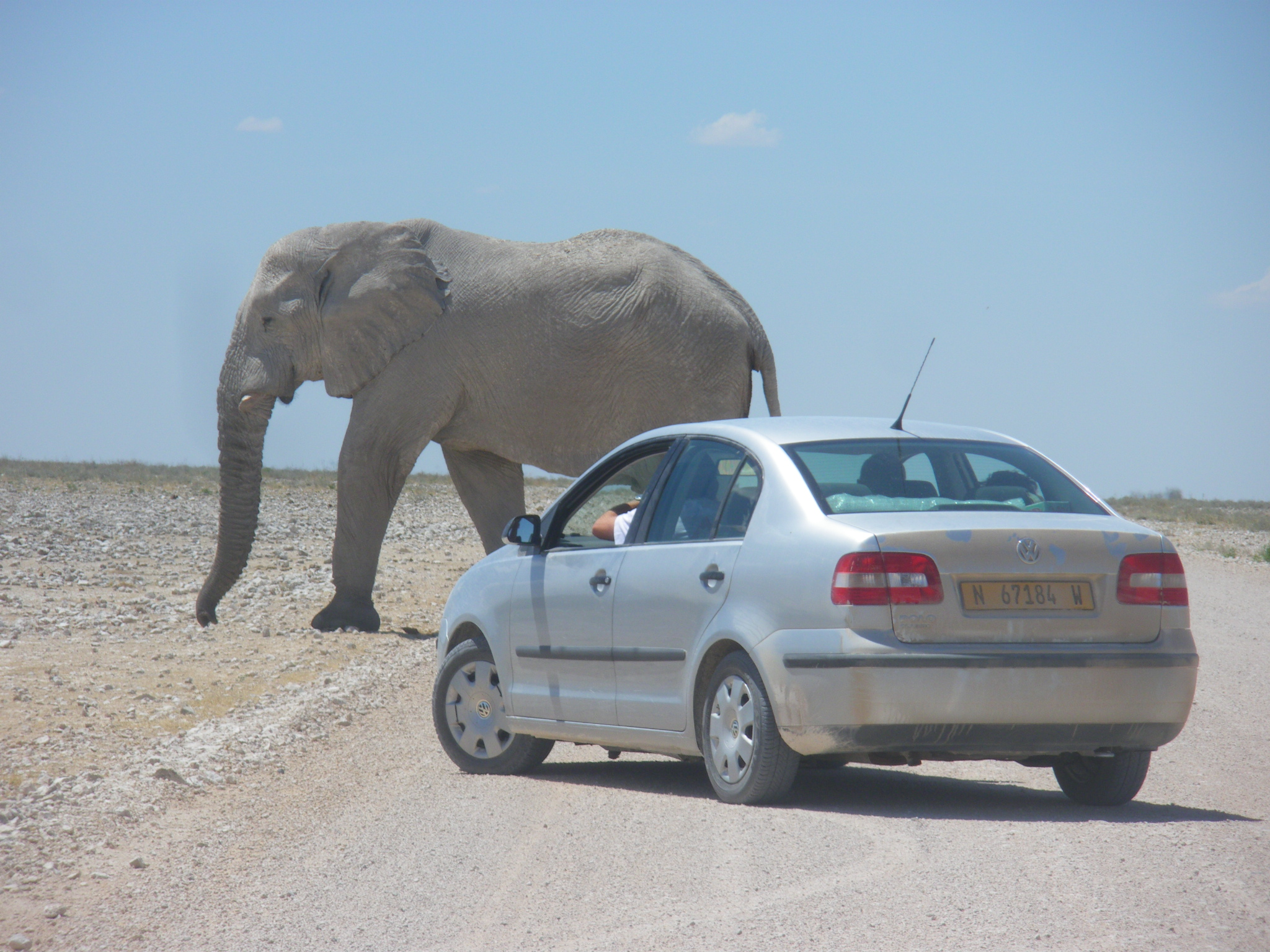 Elephants at Etosha National Park, Namibia